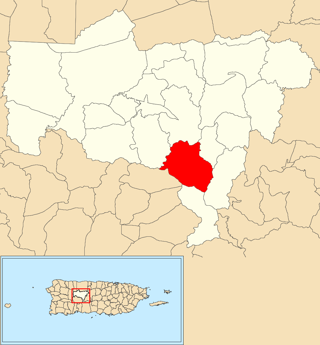 Viví Arriba, Utuado, Puerto Rico locator map scale is 102,000